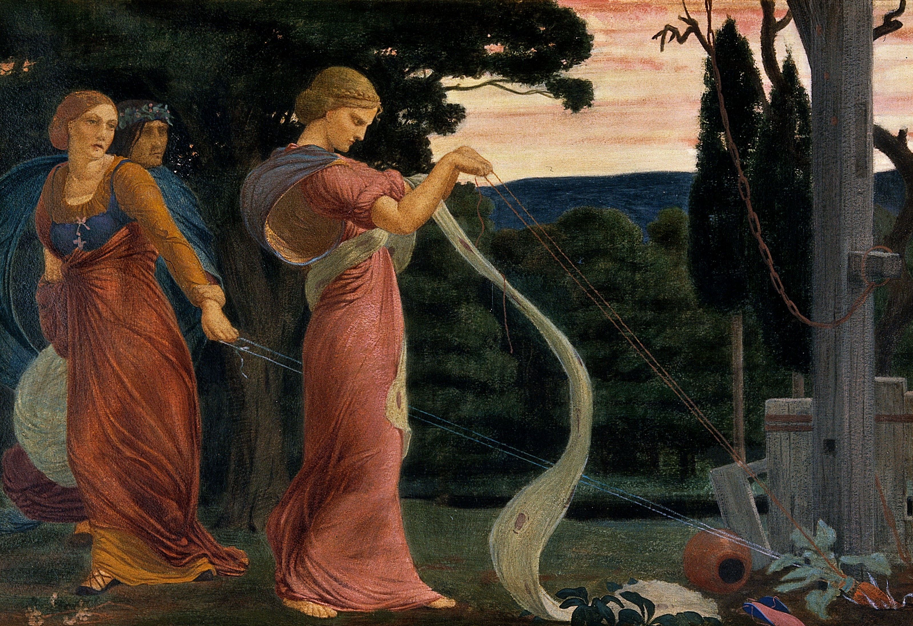 Three people plucking mandrake. Gouache by Robert Bateman. Iconographic Collections Keywords: Robert Bateman